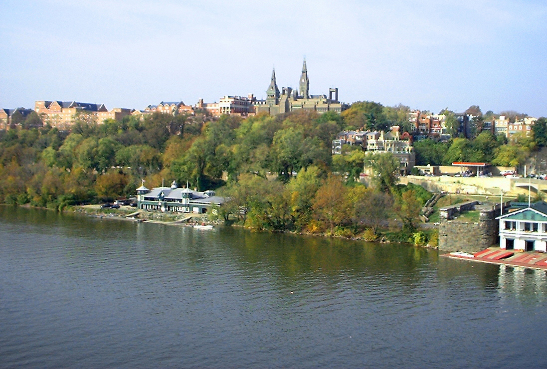 taken from Image:Georgetown University.JPG, on the English Wikiedpia, which was created by user:SCUMATT (Matthew Hendricks) under a creative commons 2.5 by-sa (attribution, share alike). It's a picture of Georgetown University from across the Potomac, which I cropped (using Adobe Photoshop 5.5) to remove non-Georgetown buildings and excess sky. The Washington Canoe Club, built in 1904 and listed on the National Register of Historic Places, is in the foreground.